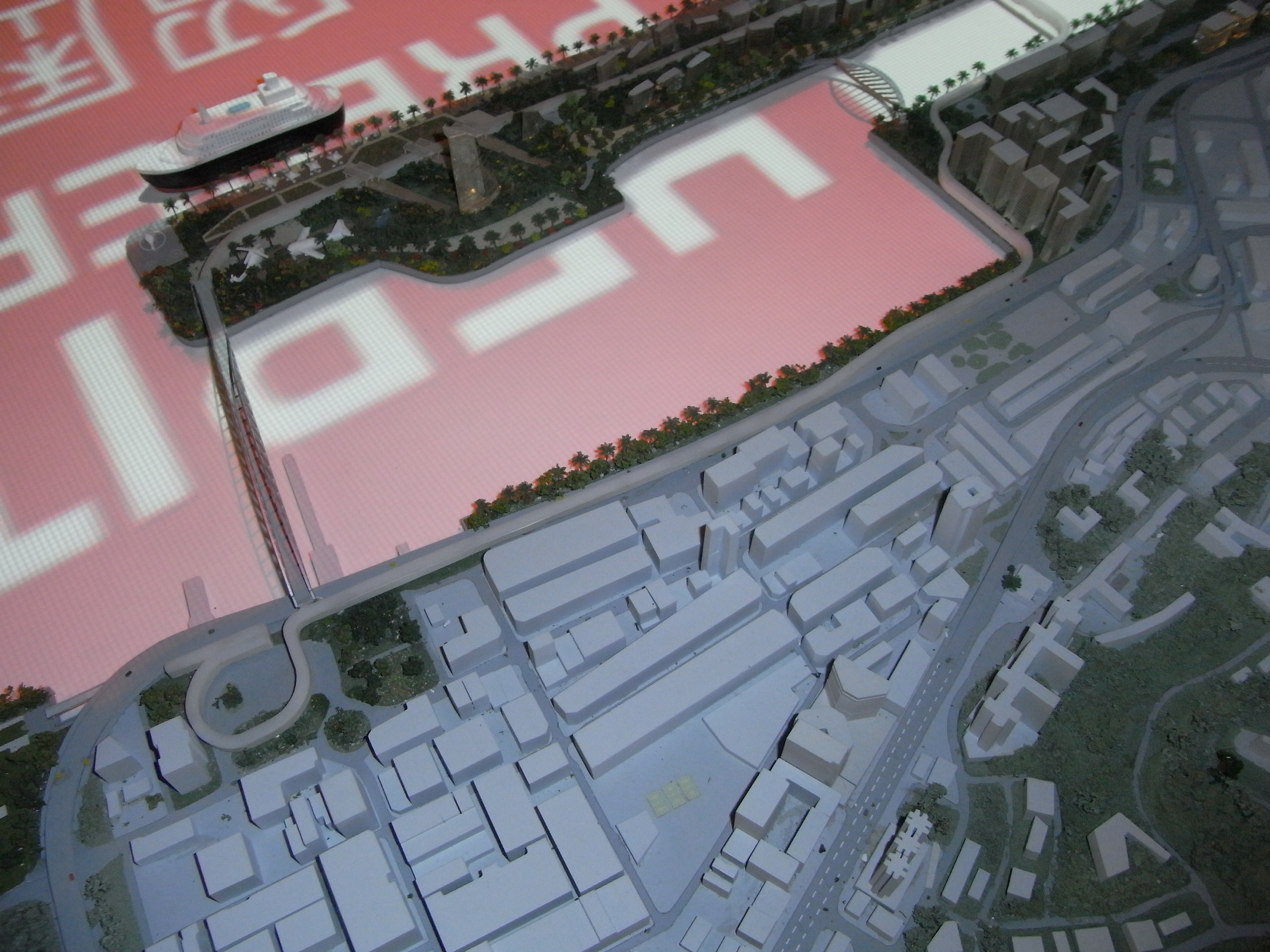 香港2010年2月 香港規劃及基建展覽館 啟德郵輪碼頭 & 觀塘模型